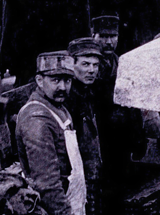 Workers of the Holyoke Water Power Company stand before the last stone to be placed in the third Holyoke Dam, at the 3 o'clock ceremony in the afternoon of January 5, 1900.